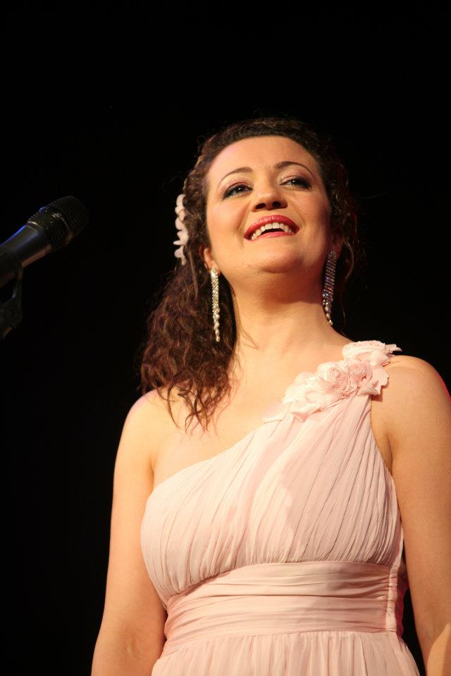 درصاف الحمداني3